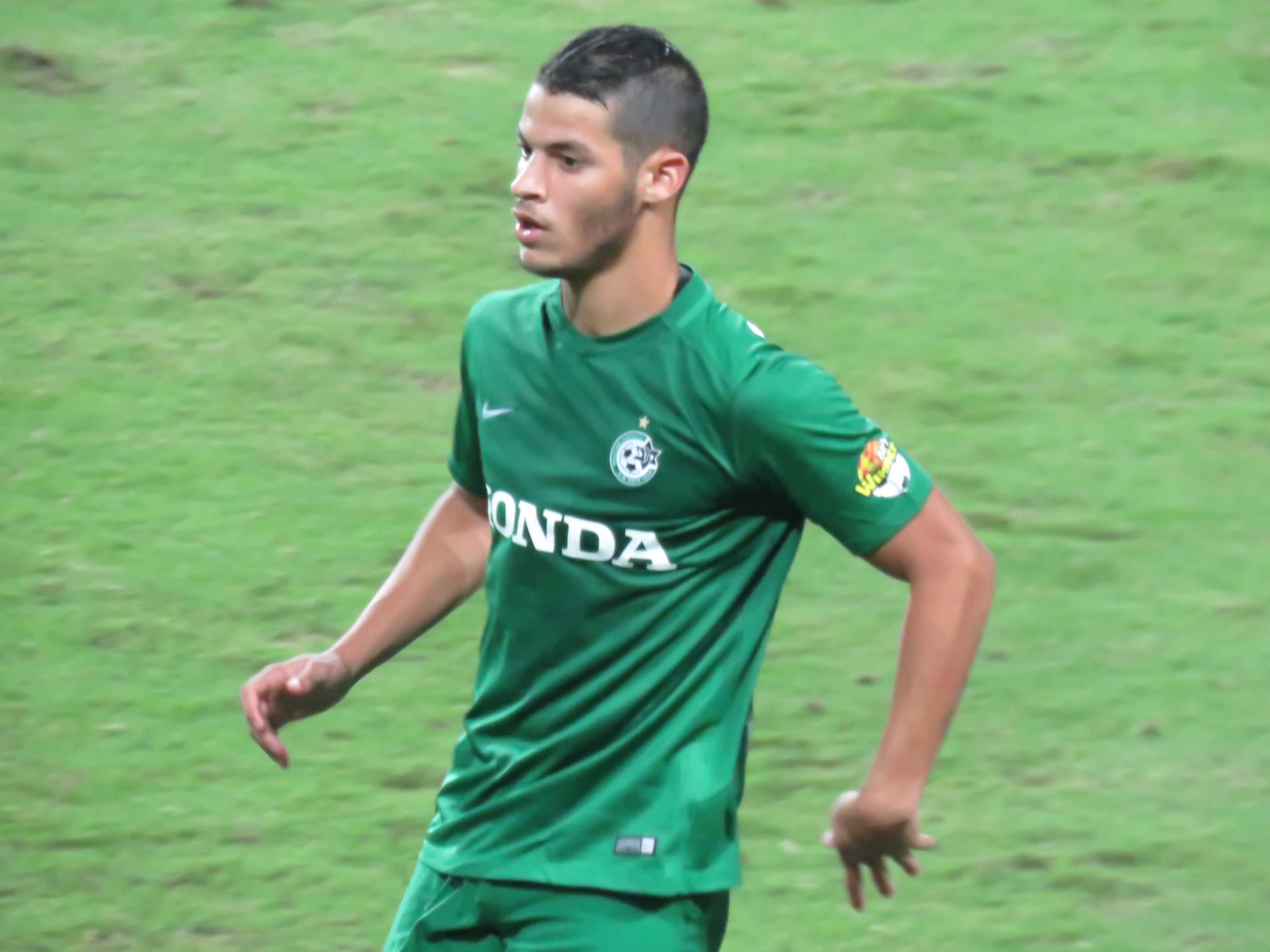 Maccabi Petah Tikva F.C. vs. Maccabi Haifa F.C., 31 October, 2015